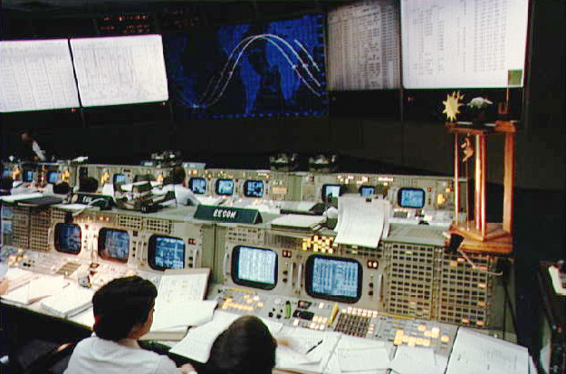 Photo ID: S82-28732Program: ShuttleMission: STS-003Wide angle view of Mission Operation Control Room (MOCR) activity during Day 2 of STS-3 mission. This view shows many of th consoles, tracking map, and Eidophor-controlled data screens. Flight controllers in the foreground are (l.r.) R. John Rector and Chares L. Dumie. They are seated at the EECOM console. The "thermodillo" contraption, used by flight controllers to indicate the Shuttle's position in relation to the sun for various tests, can be seen at right (28732); closeup view of the "thermodillo". The position of the armadillo's tail indicates position of the orbiter in relation to sun (28733); Mission Specialist/Astronaut Sally K. Ride, STS-3 orbit team spacecraft communicator (CAPCOM), talks to flight director during mission control center activity. Mission Specialist/Astronaut George D. Nelson, backup orbit team CAPCOM, watches the monitor at his console (28734).